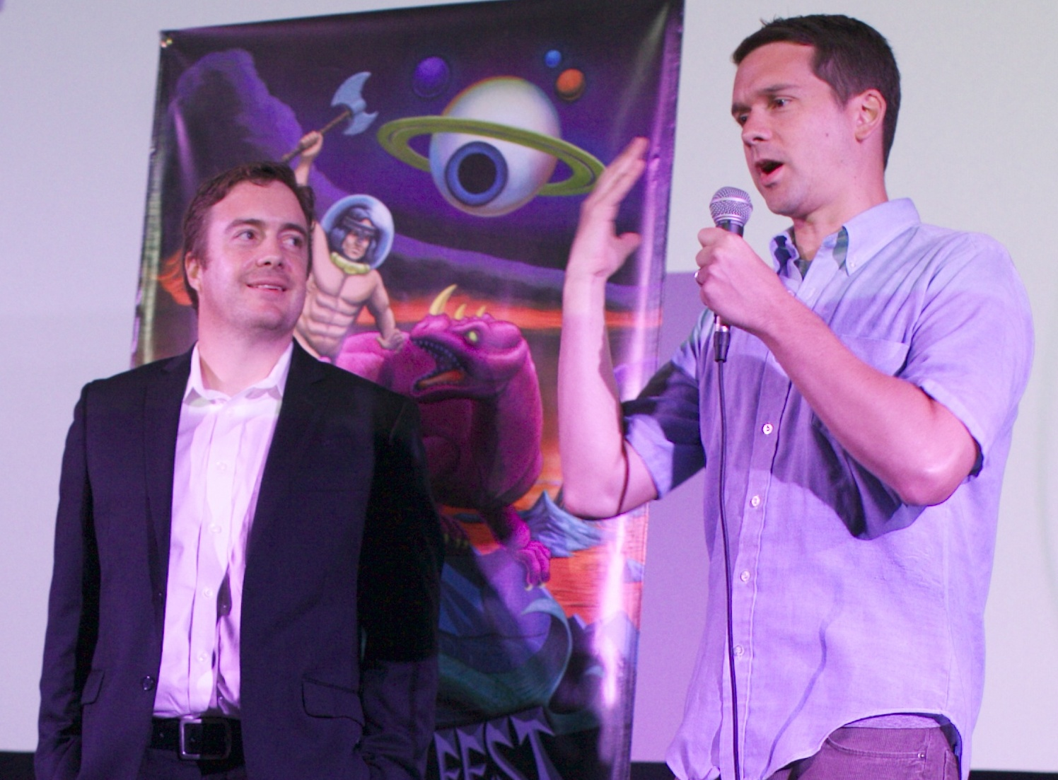 Q& A, "Blue Ruin" Fantastic Fest with Writer/Director Jeremy Saulnier and lead actor Macon Blair